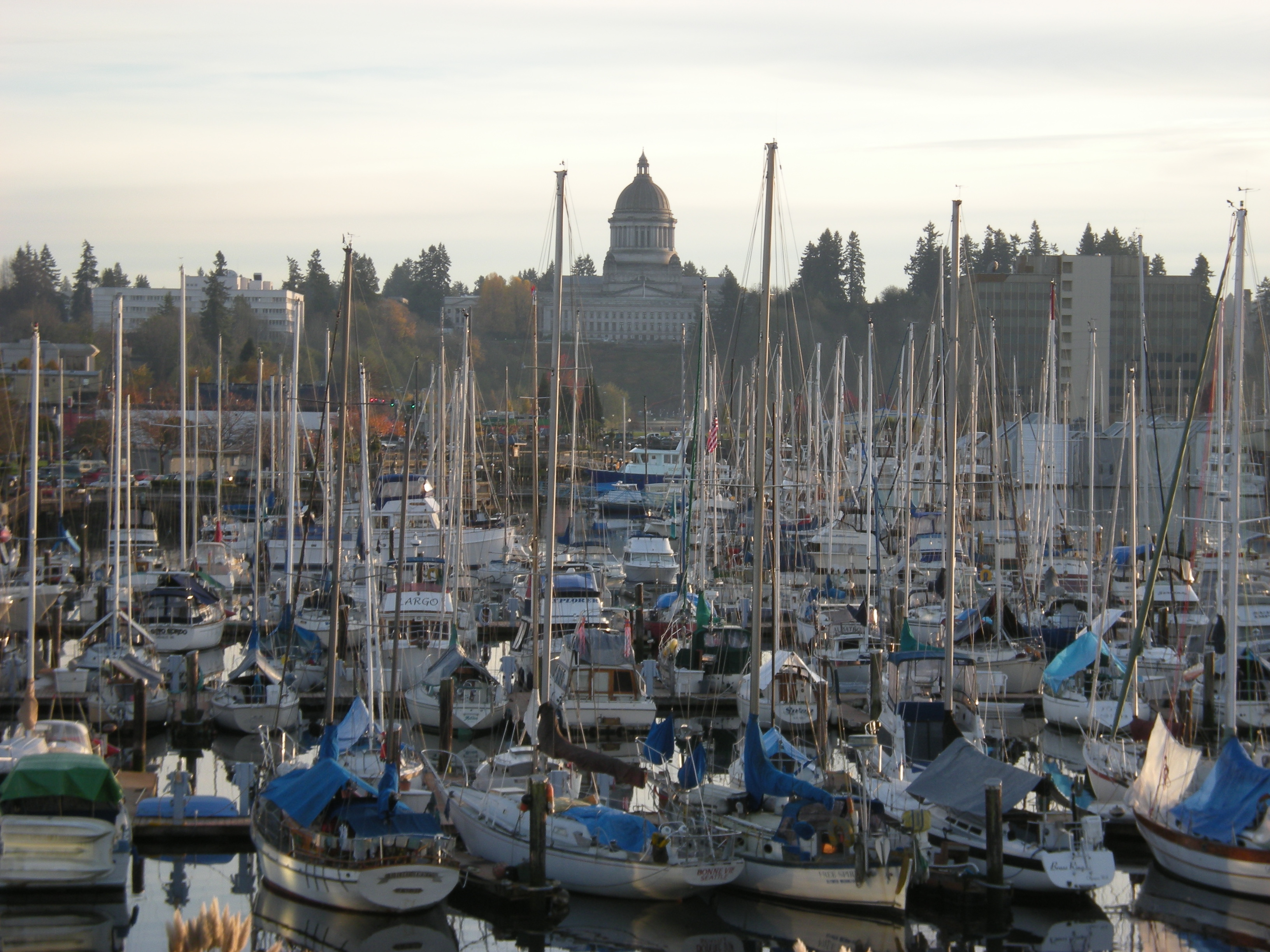 Washington States Capitol from Budd Inlet, Olympia, Washington. A similar image roughly 4 years earlier can be seen at Image:Olympia-Washington.jpg. Many of the boats are in exactly the same positions.